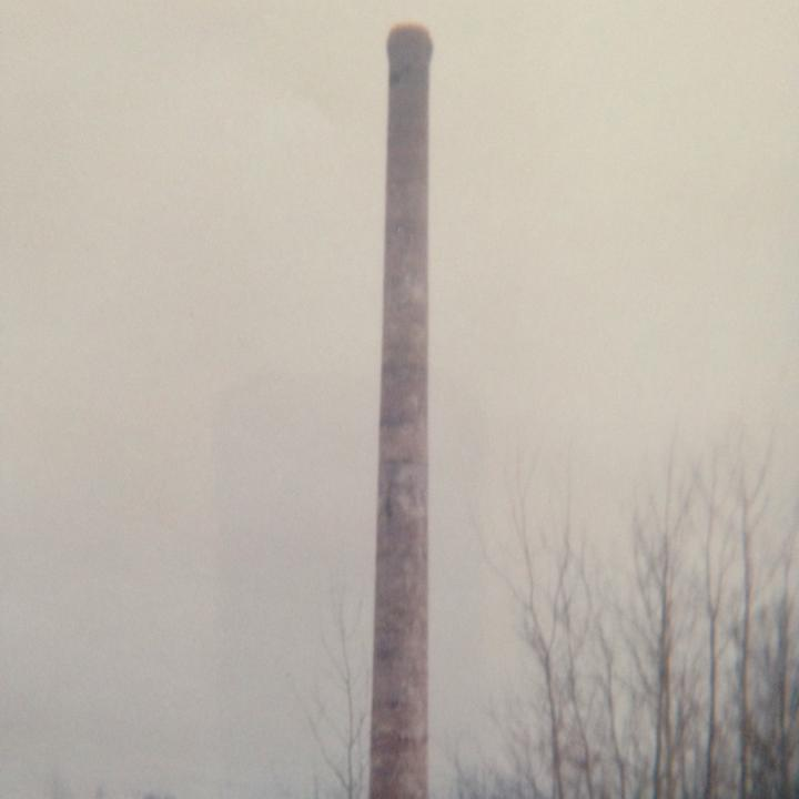 Elcor Smokestack, ca. 1967, prior to demolition (William Keller, Iron Range Historical Society photo)